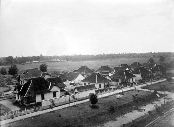 Residential quarter near the Central Working-hall of the N.I.S. (Dutch East-Indies Railway Company) in Yogyakarta, Java